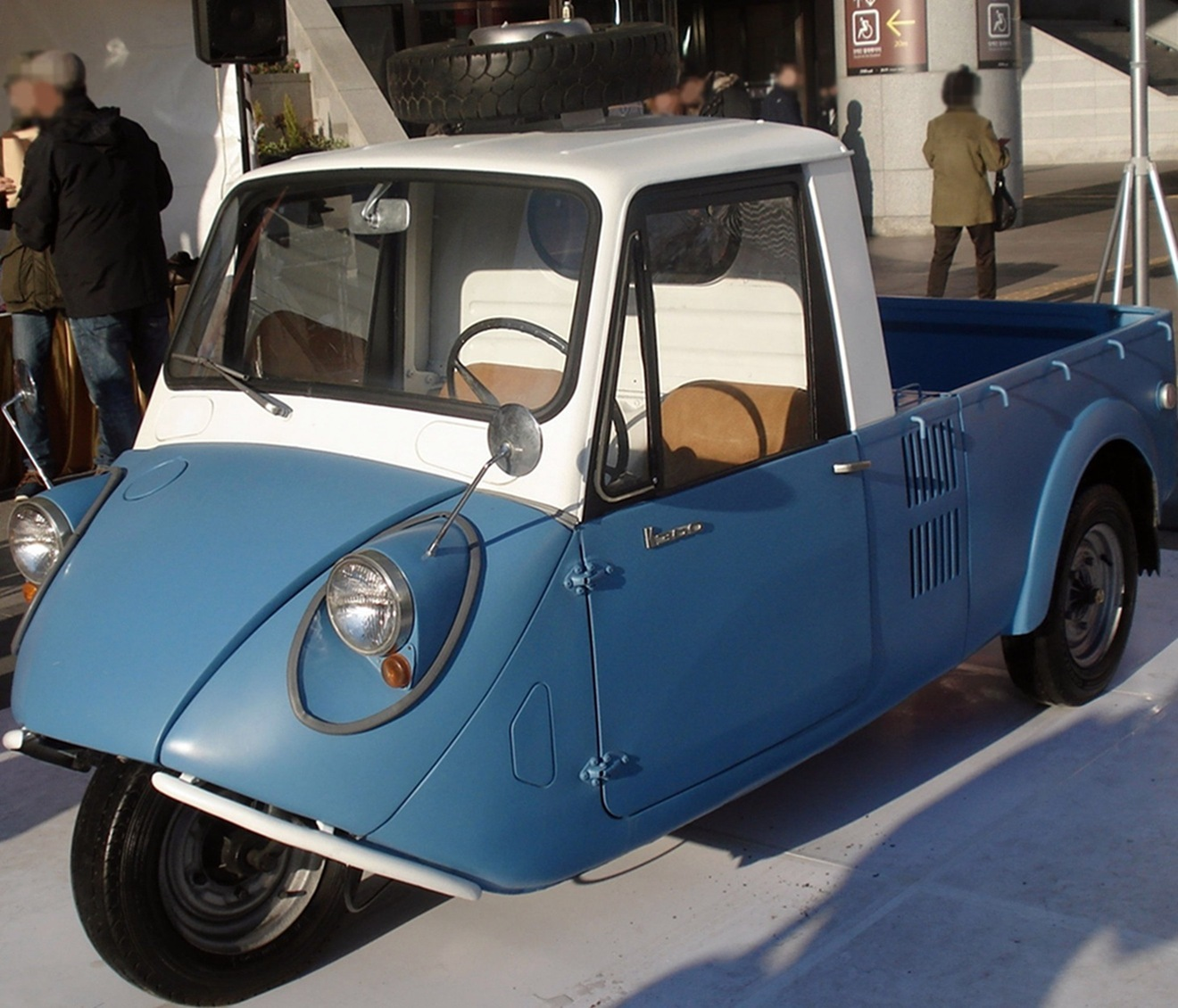 Kia T600